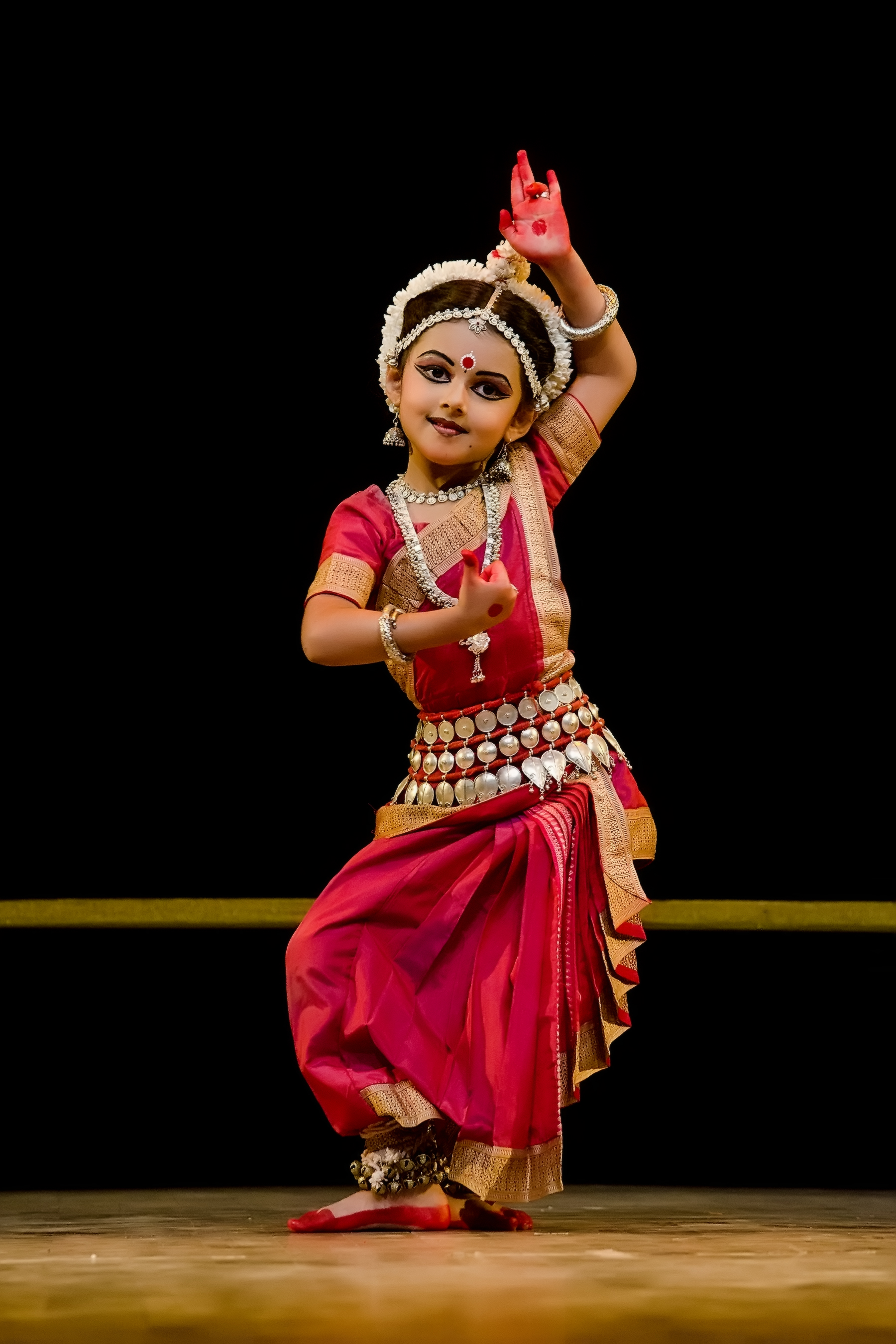 Shrinika performing Abhinaya (Kede Chhanda Janilu Tuhi)